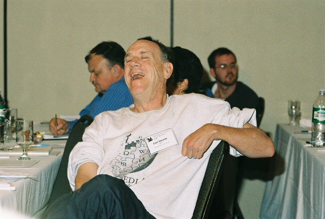 FLoC 2006: Carl Hewitt